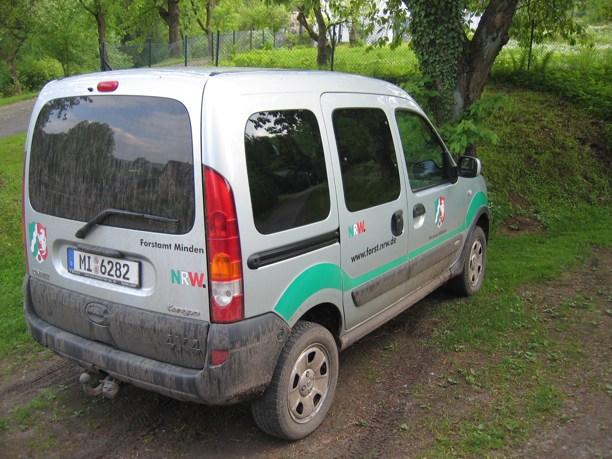 Car of NRW forest service in Preußisch Oldendorf, District of Minden-Lübbecke, North Rhine-Westphalia, Germany.